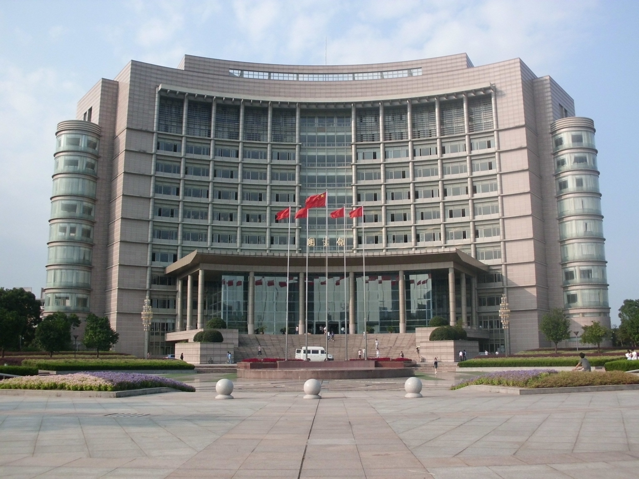 library building